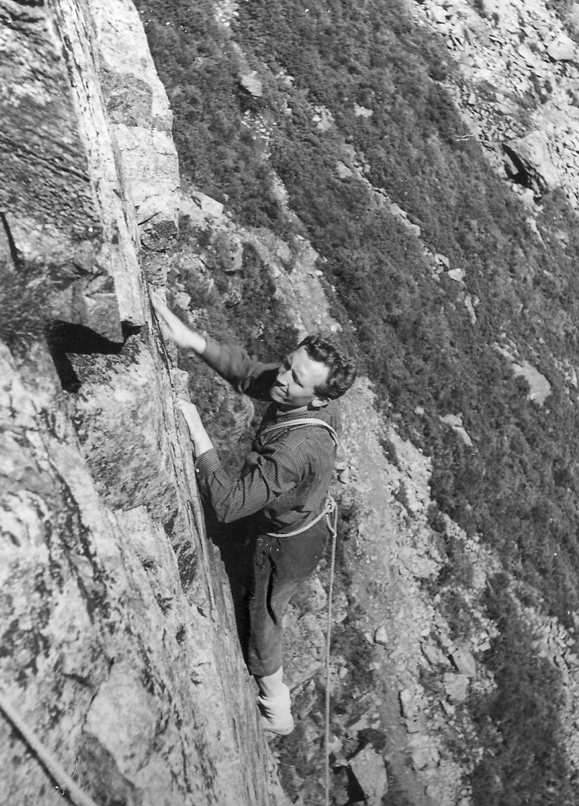 Les McDonald Climbing, unknown location